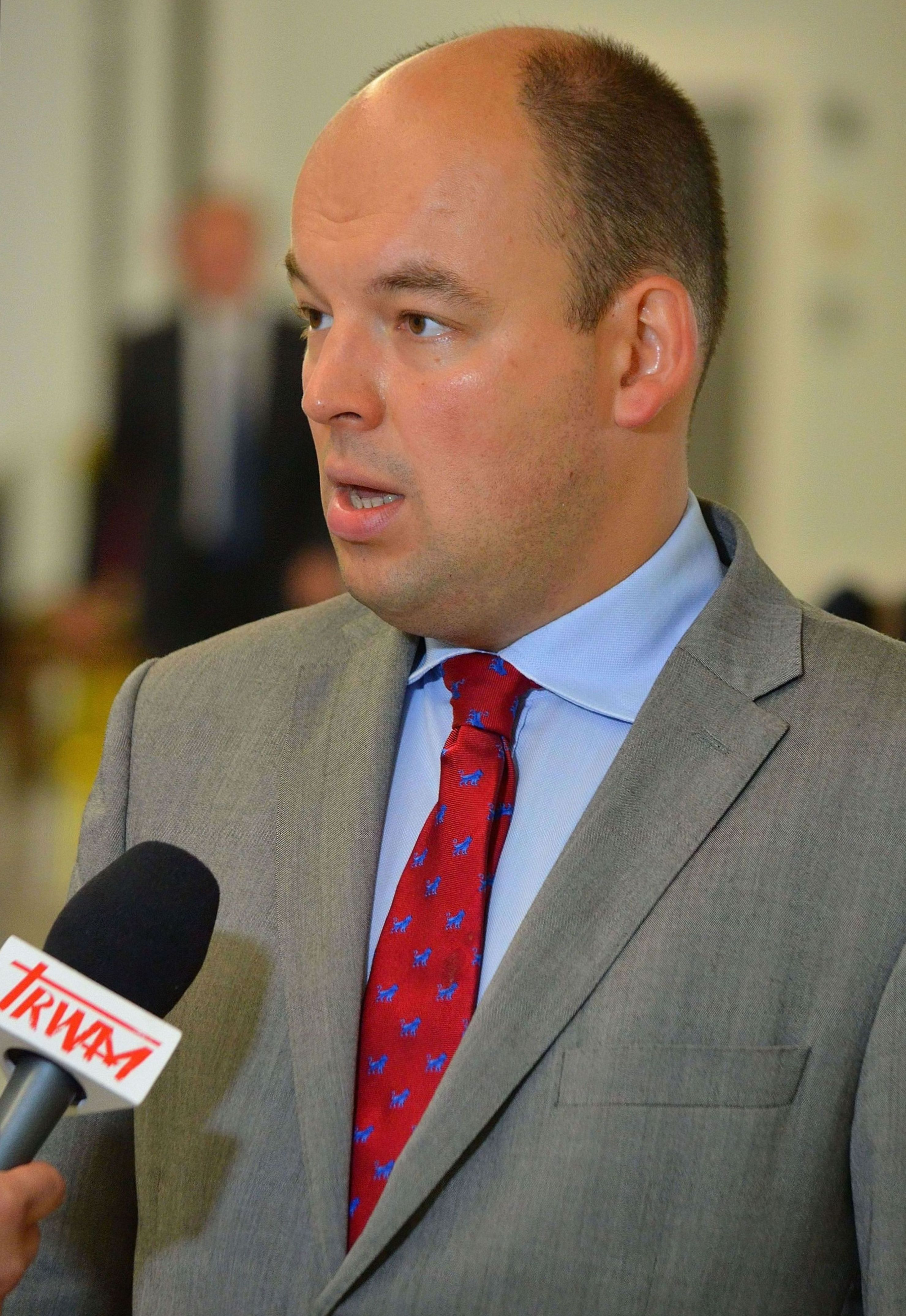 Polish MP Jan Dziedziczak in the Polish Sejm